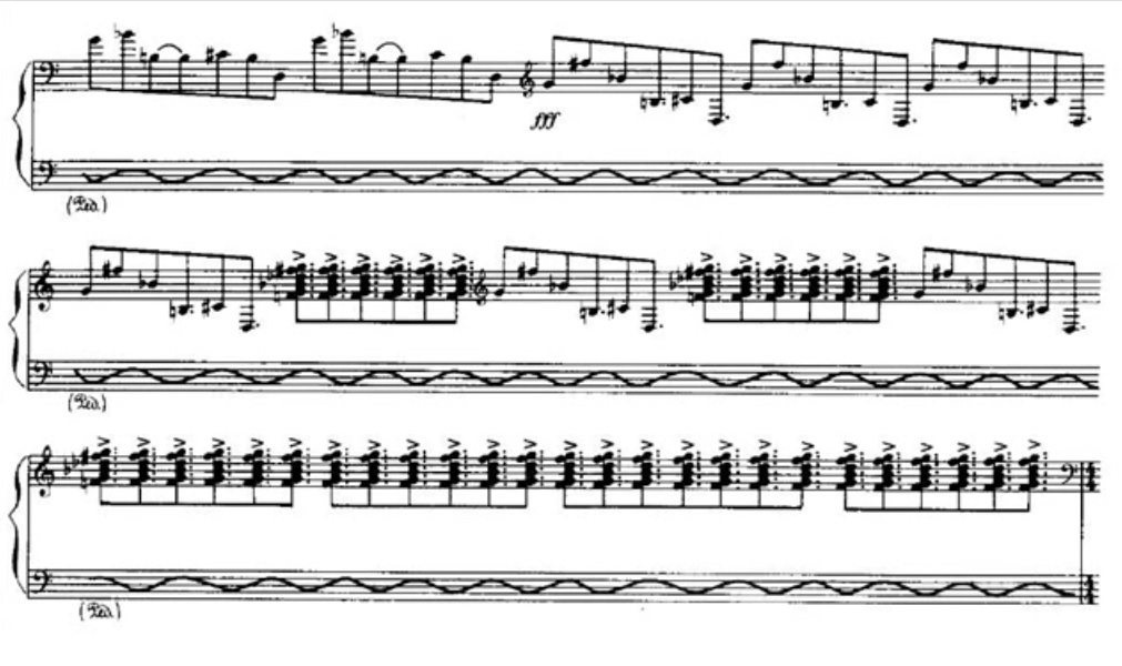 Cadenza from Schnittke's piano concerto Op. 136 for string orchestra.